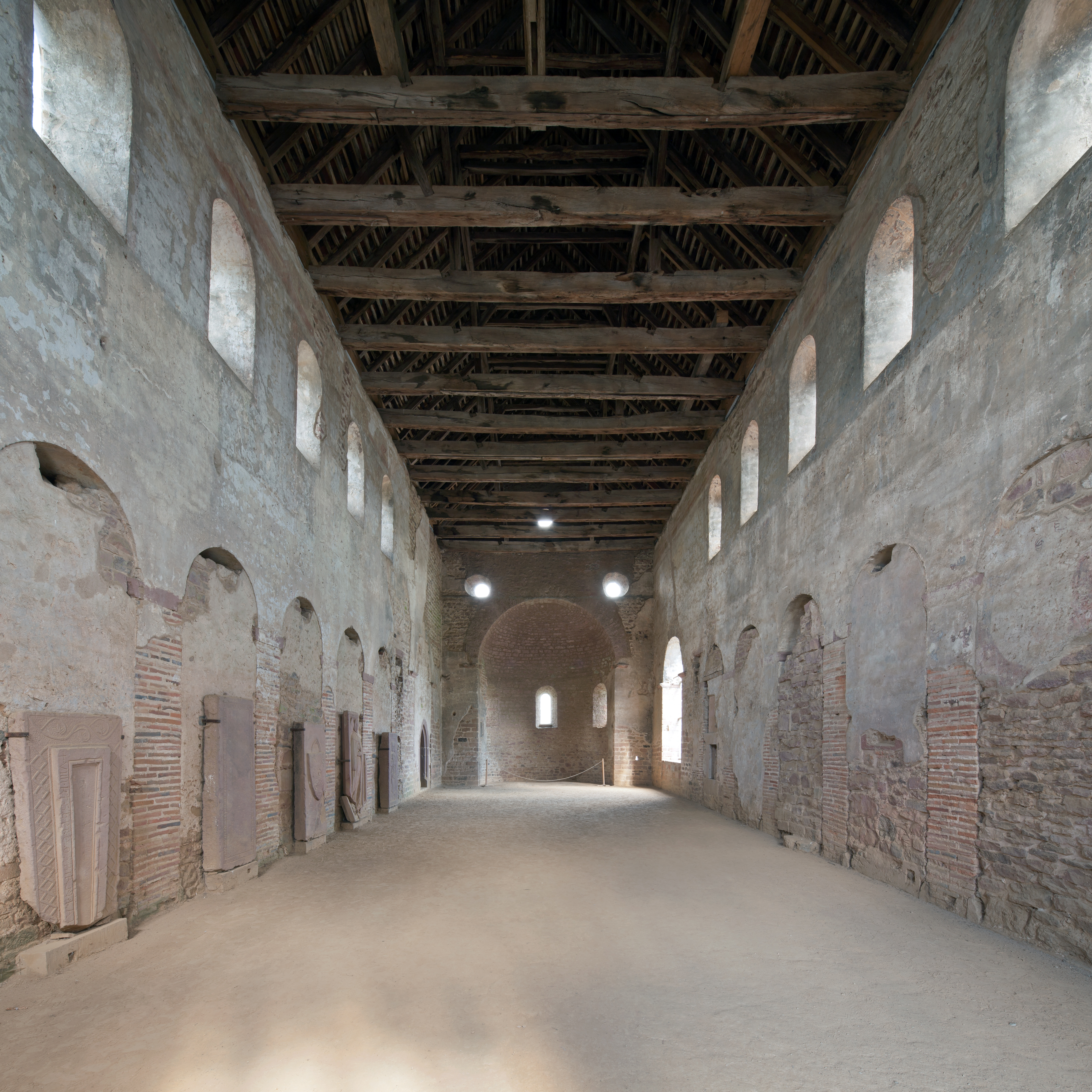 Michelstadt-Steinbach: Einhardsbasilika (Einhard Basilica), interior as seen from the west